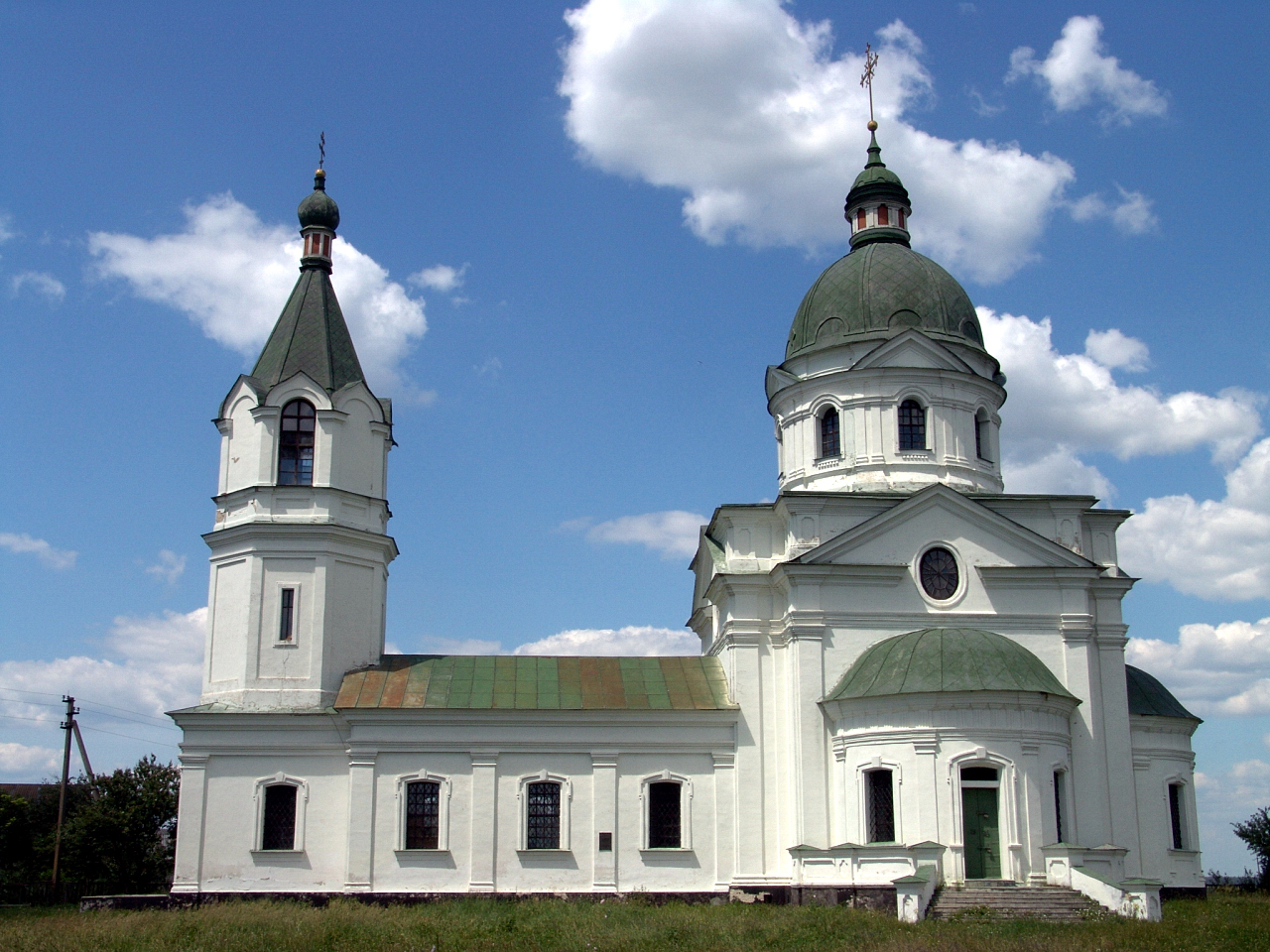 Three Holy Hierarchs' Church in Lemeshi